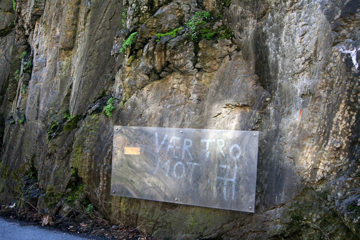 Anti-German graffiti from World war II on a road cutting in Uranienborgveien, central Oslo, apparently behind a protective screen. The text means: Be true to H7 (Haakon VII, then exiled king of Norway).